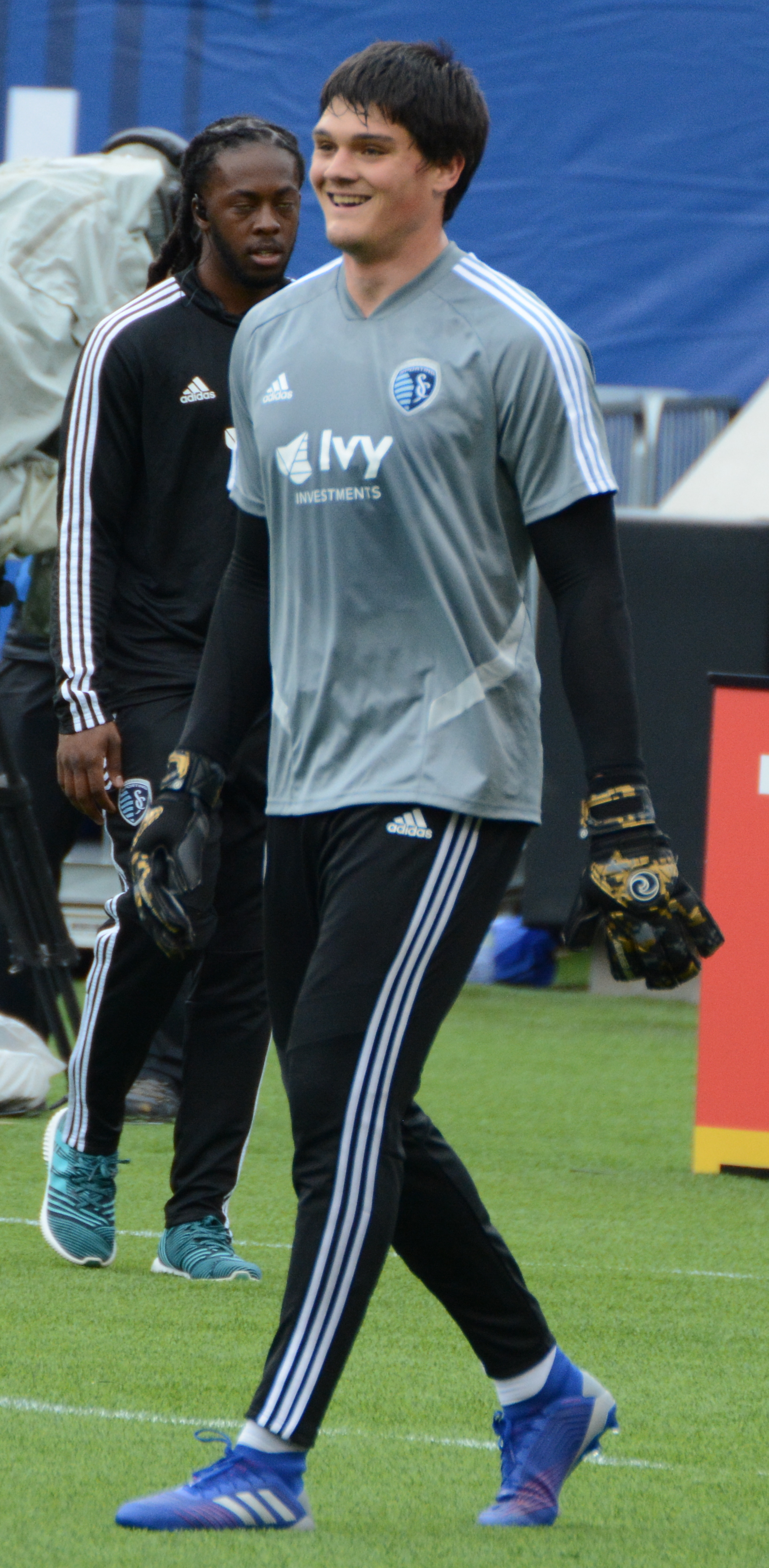 Taken during a Major League Soccer regular season match between FC Cincinnati and Sporting Kansas City at Nippert Stadium in Cincinnati, USA on April 7, 2019.